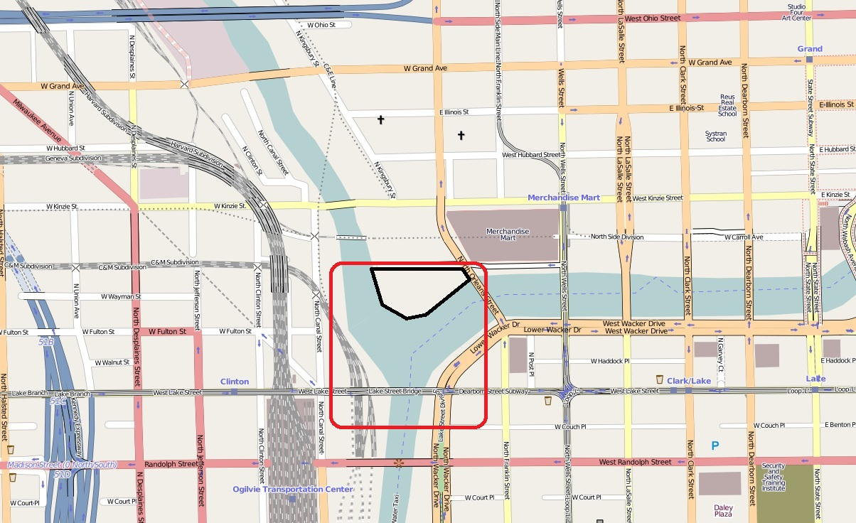 Wolf Point, Chicago This map may be incomplete, and may contain errors. Don't rely solely on it for navigation.